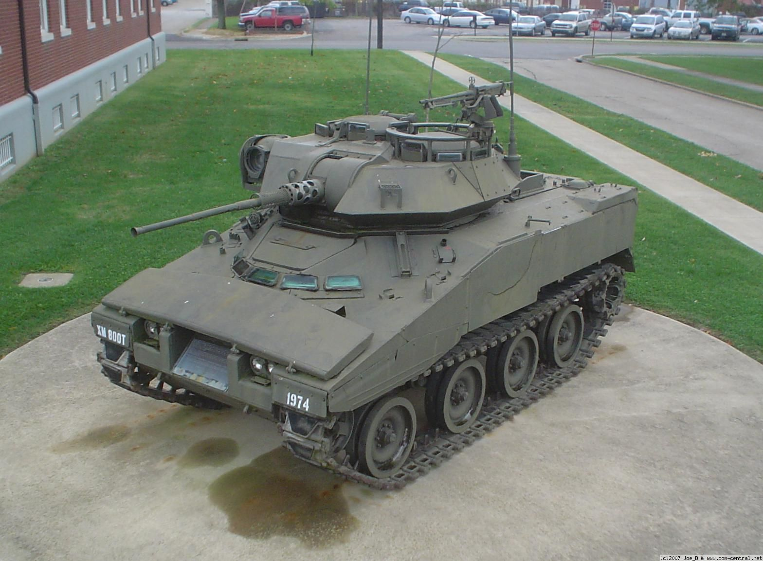 The XM800T was one of two candidates (the other the six-wheeled XM800W) that was to be selected by the Army as a dedicated vehicle for the Scout in the Armored Cavalry and maneuver battalion scout platoons for the 1980-1990 time frame. The program was initiated in 1966 and ended in 1976. Photo by Bob Steinbrunn